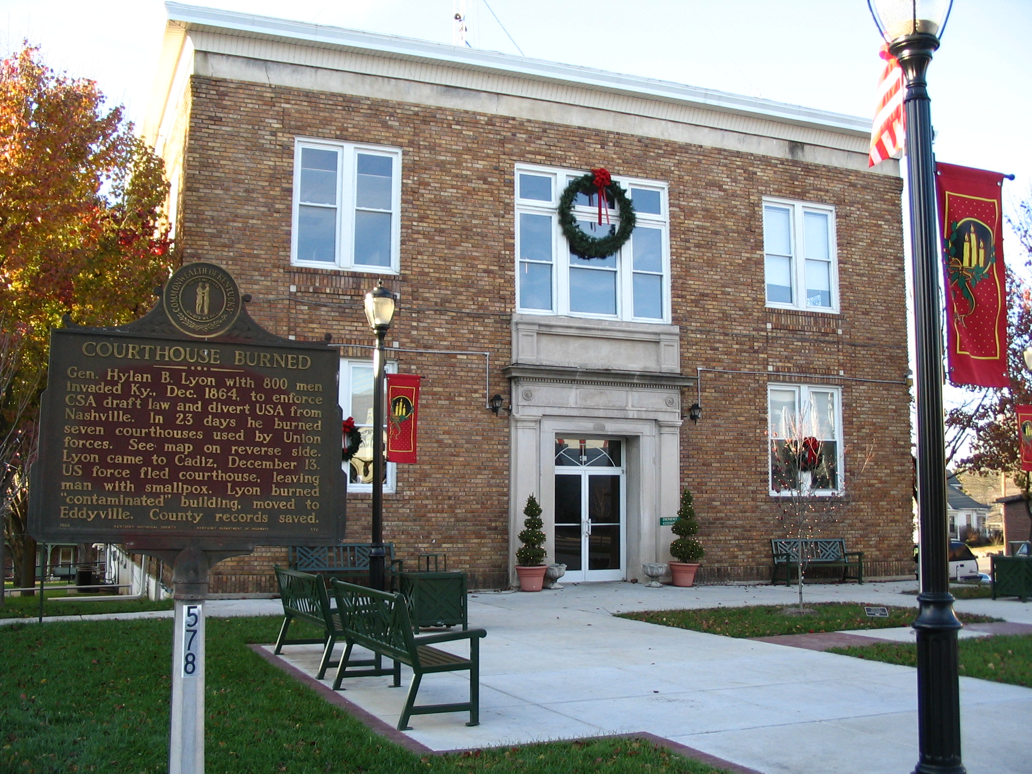 A picture of the historic courthouse in Cadiz, Kentucky, taken and placed into the public domain by Derrick Coetzee.